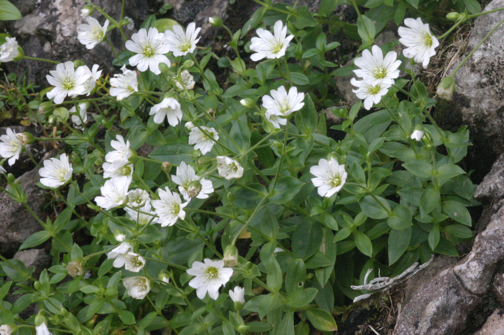 Cerastium carinthiacum subsp. carinthiacum